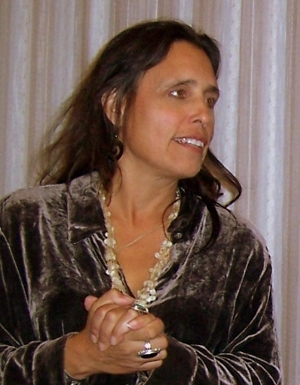 reception